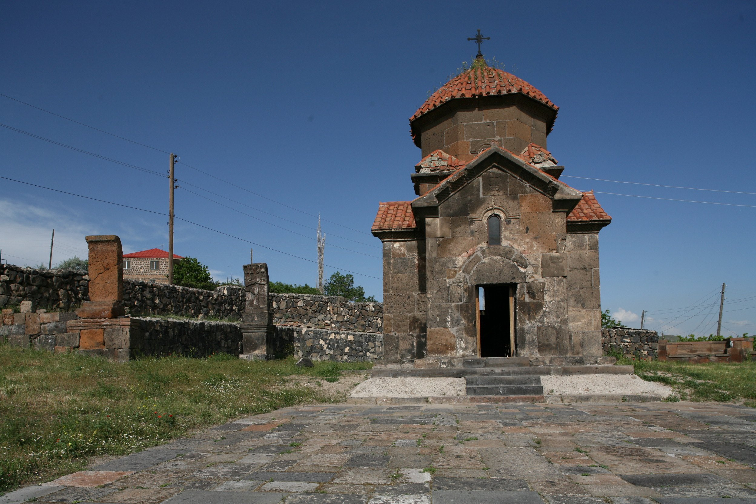 Karmravor Church